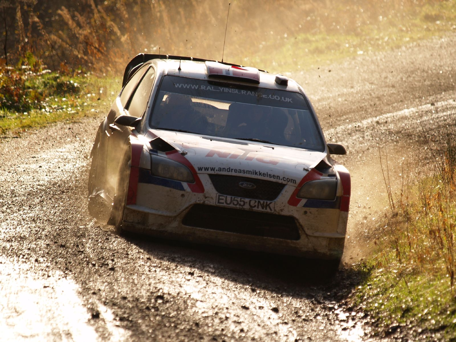 Andreas Mikkelsen driving his Ford Focus RS WRC 06 during 2007 Wales Rally GB.